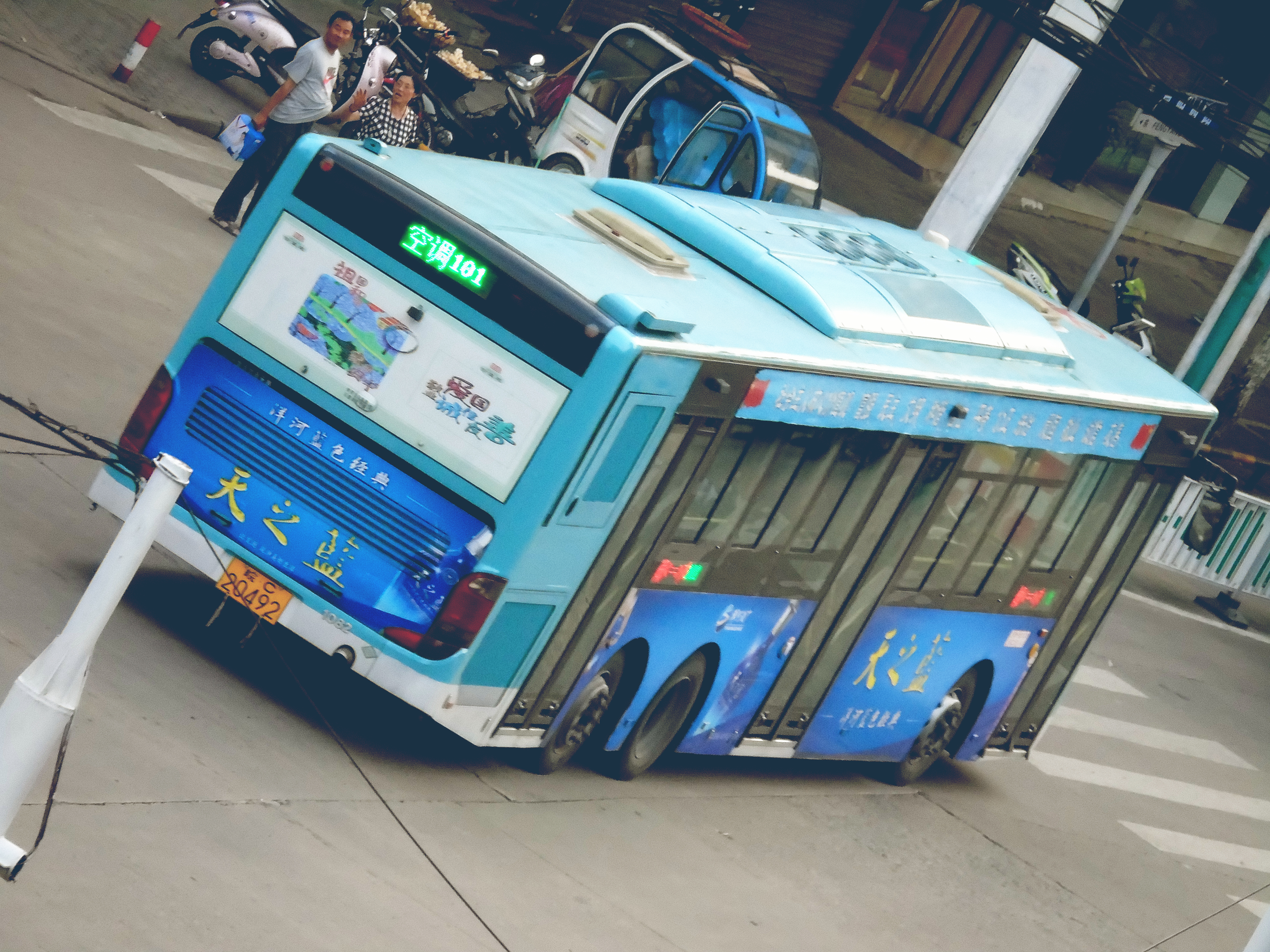 Bengbu Bus No.101 Rear